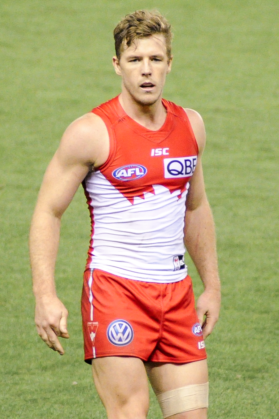 Luke Parker during the AFL round two match between the Western Bulldogs and Sydney on 31 March 2017 at the Etihad Stadium in Melbourne, Victoria.